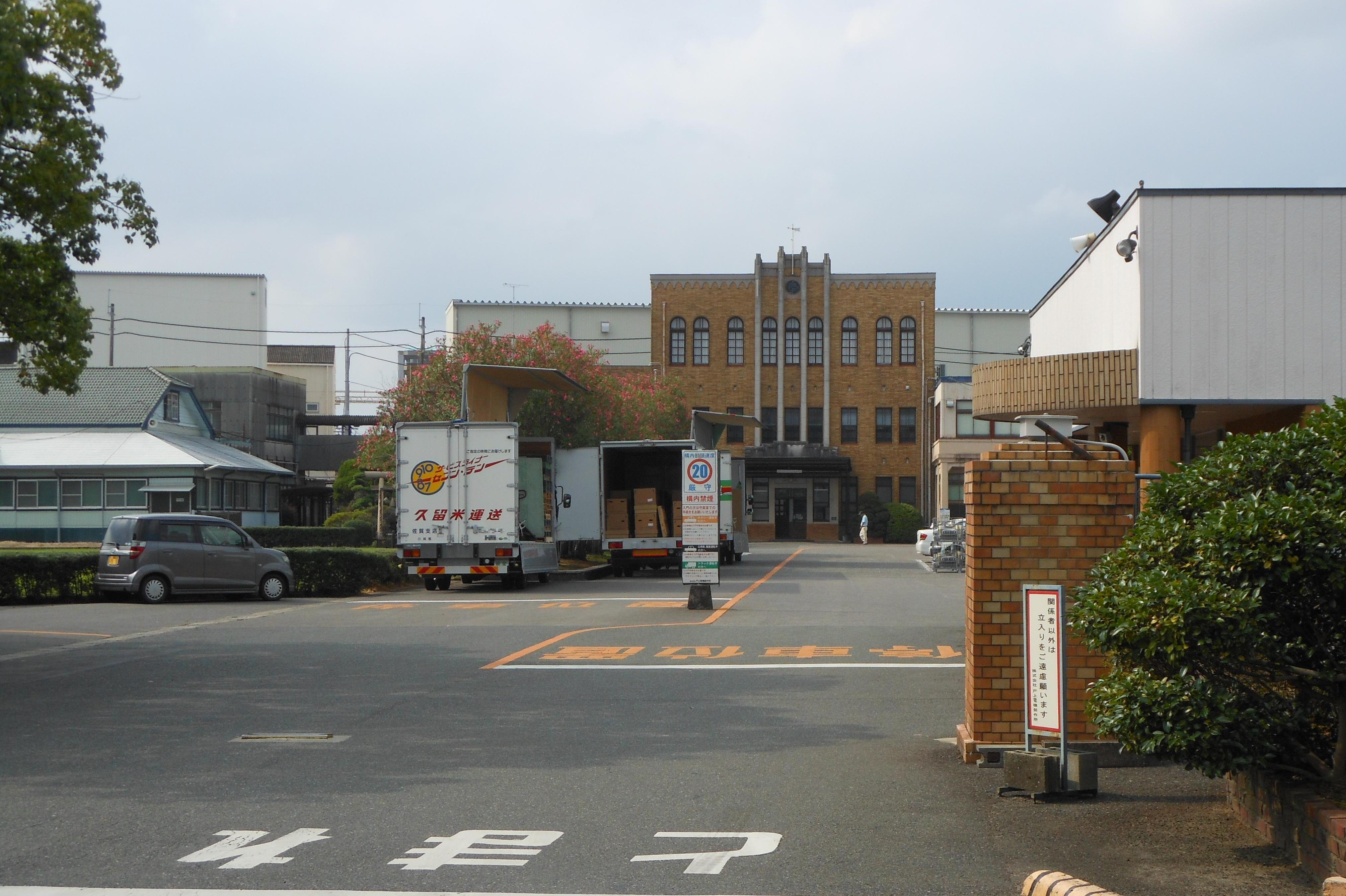 Headquarters and factory of TOGAMI ELECTRIC MFG.CO.,LTD., a electric company of Saga prefecture, Japan.